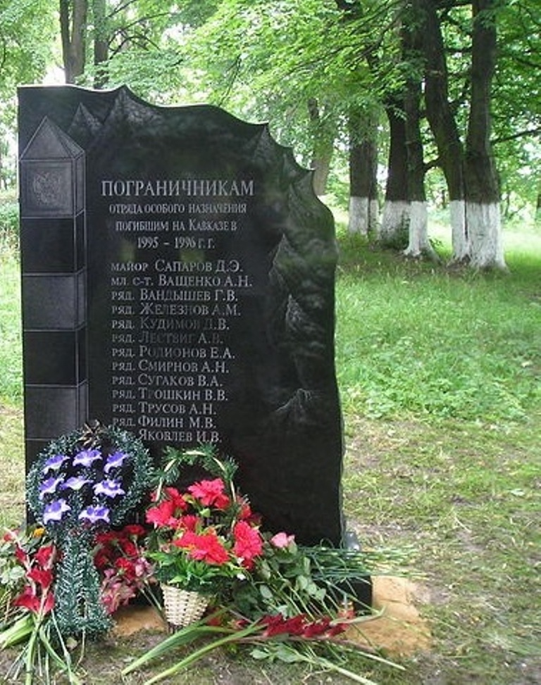 memorial to combat victims of First Chechen War